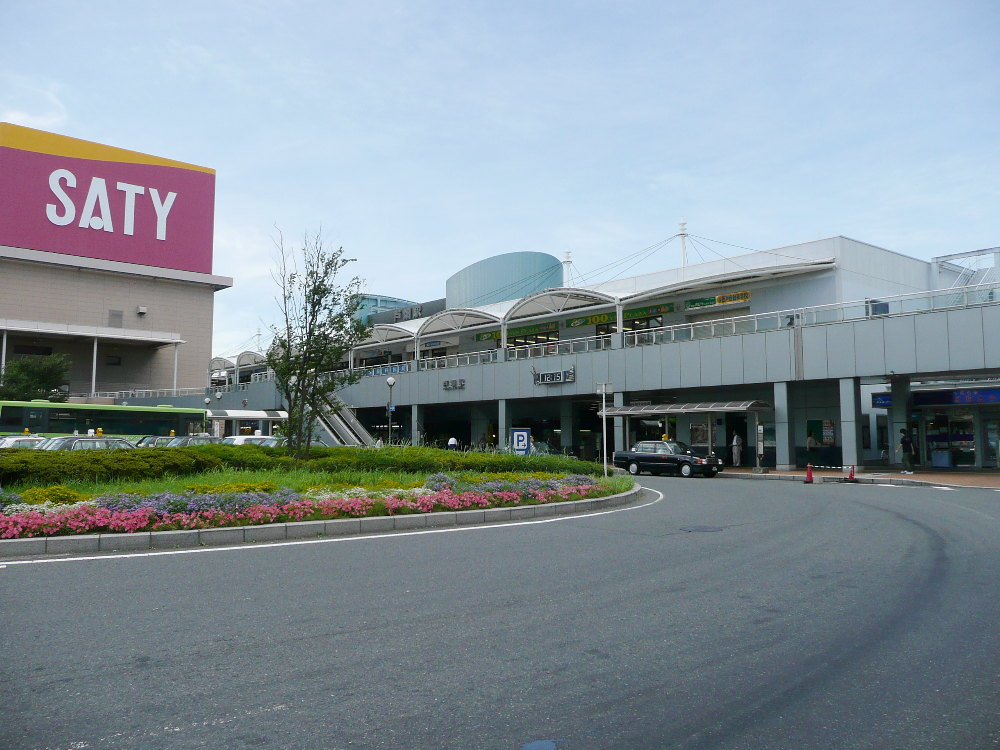 Tobata Station in Tobata-ku, Kitakyushu City, Fukuoka Prefecture, Japan